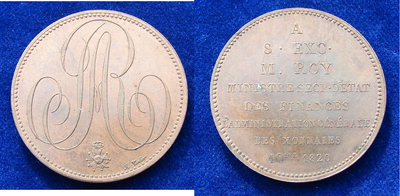 Cu, d. = 37 mm Antoine comte Roy, Finance Minister of Louis XVIII, 1764 Savigny (Haute-Marne) -1847 Paris Monogram "A", with "R", the medal of the Légion d’Honneur in exergue / 8 lines: "A S. EXC. M. ROY MINSTRE SECR. D' ETAT DES FINANCES L' ADMINISTRATION GÉNÉRALE DES MONNAIES 10.BRE 1820". Forrer VI, p. 100. Medallist: N. (Nicolas Pierre) Tiolier, 1784 Paris - 1853 Paris Condition: Nice EXTREMELY FINE+, little tarnish.